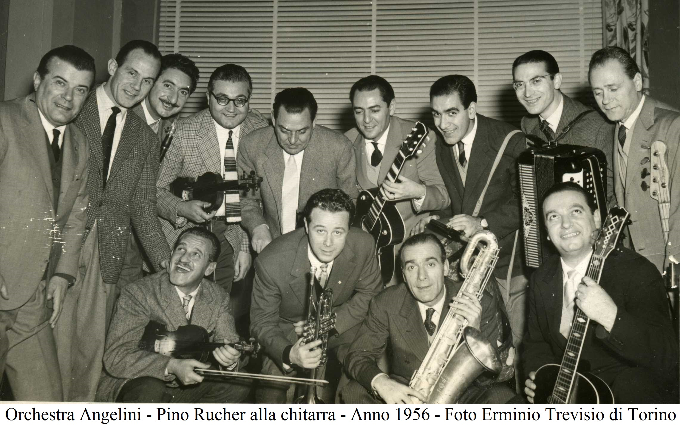 A Picture of the Angelini Orchestra. Master Cinico Angelini is first from left. Guitarist Pino Rucher is at the back (fourth from right) next to drummer Mario Maschio (third from right).